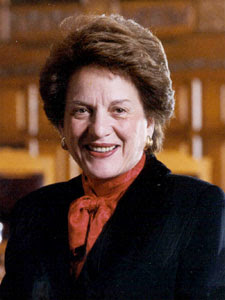 This is a picture of Judith S. Kaye.